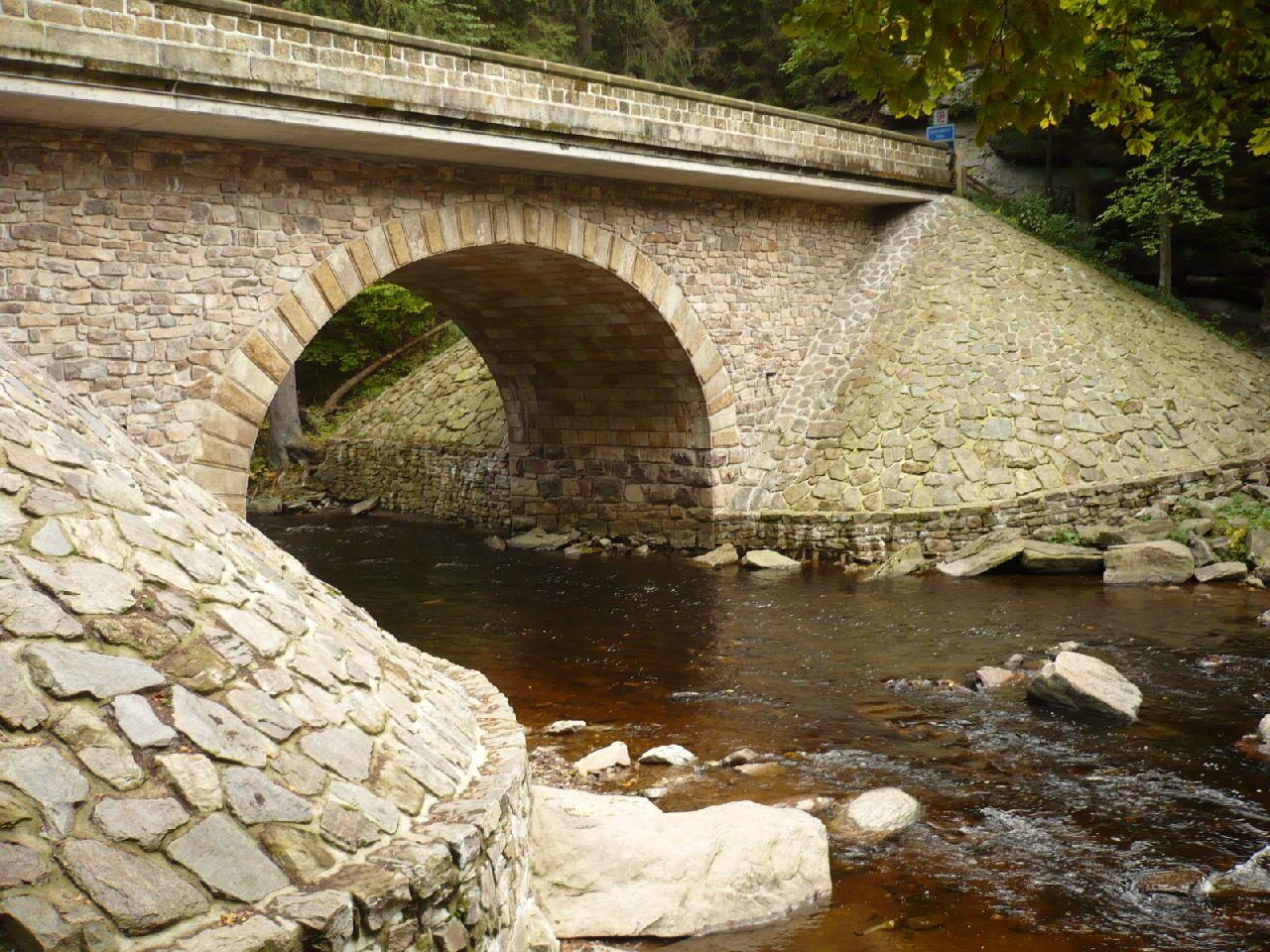 Reserve Zemska brana - stone bridge